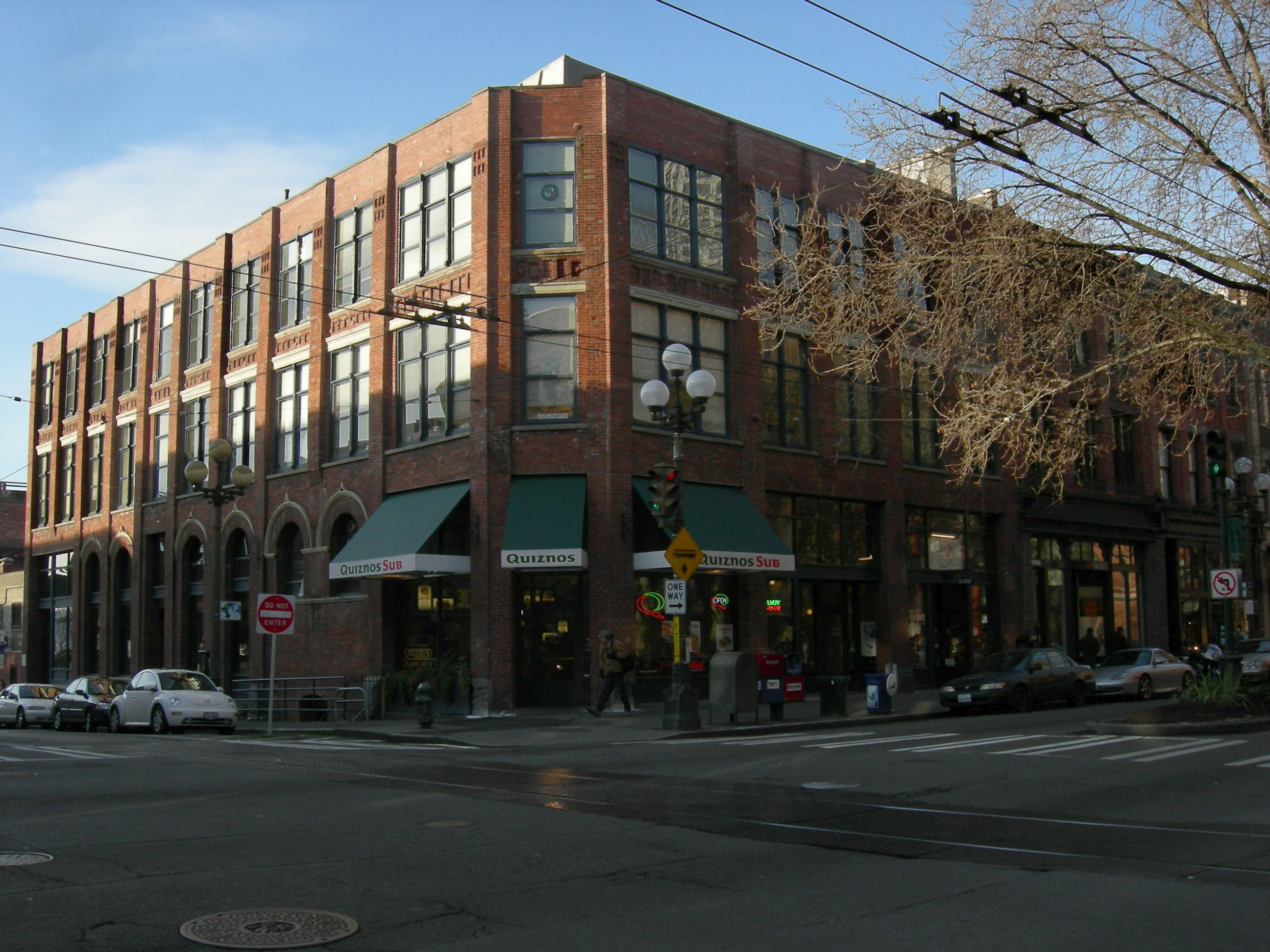 219 First Avenue S, Pioneer Square neighborhood, Seattle, Washington, New England Hotel building. Built 1889, immediately after the Great Seattle Fire. At one time, the offices of Frye and Bruhn Meat Packing Company. Seattle architect Ibsen Nelsen restored and rehabilitated the building in 1977-78. For more about the building, see Summary for 219 1st AVE / Parcel ID 5247800105, Seattle Department of Neighborhoods.